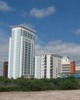 Meridian Gate with Radisson Blu (left), Cardiff, Wales